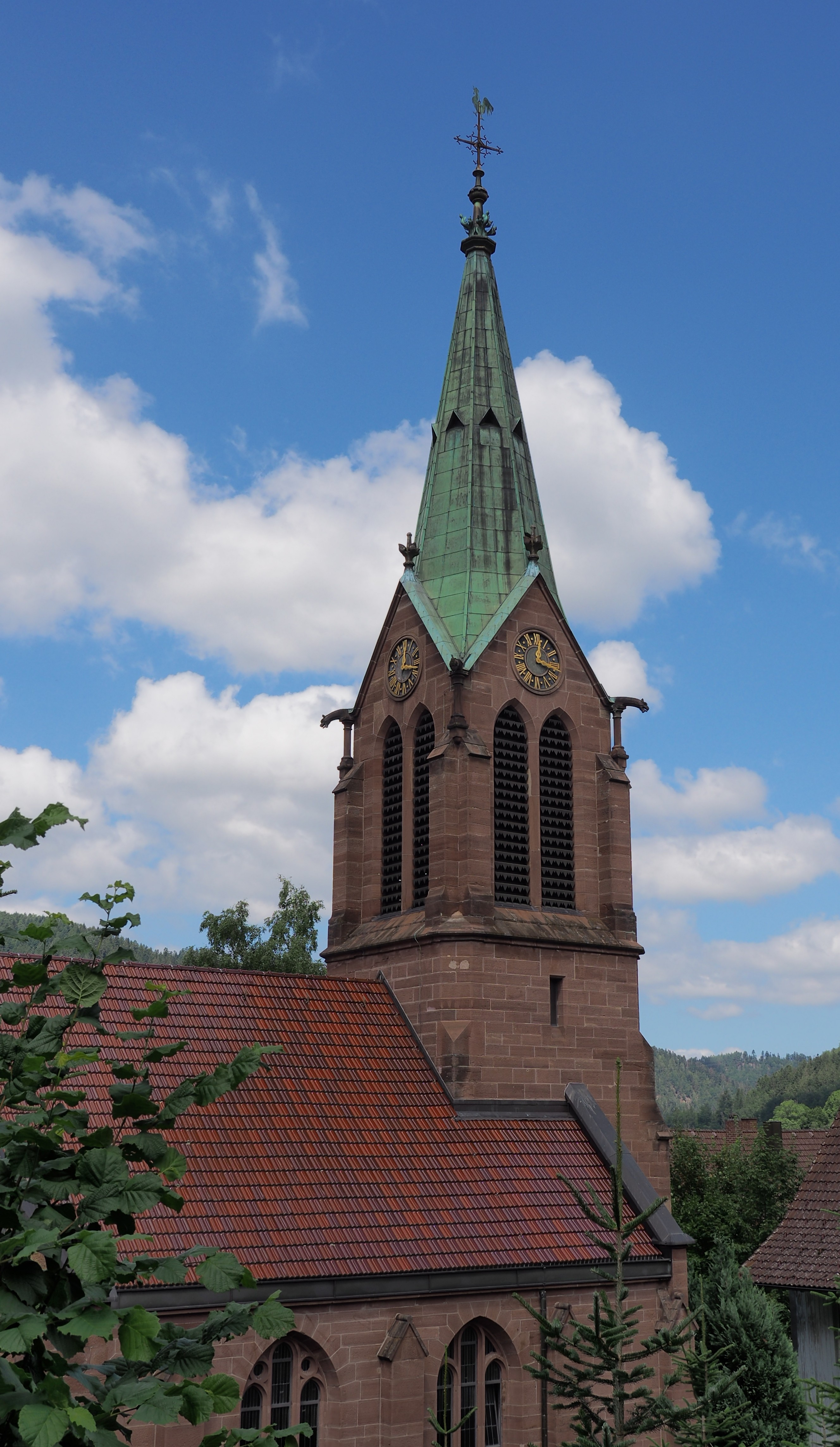 tower of the Stadtkirche Schramberg